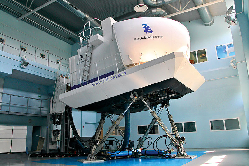 Baltic Aviation Academy Airbus B737 Full Flight Simulator (FFS) in Vilnius